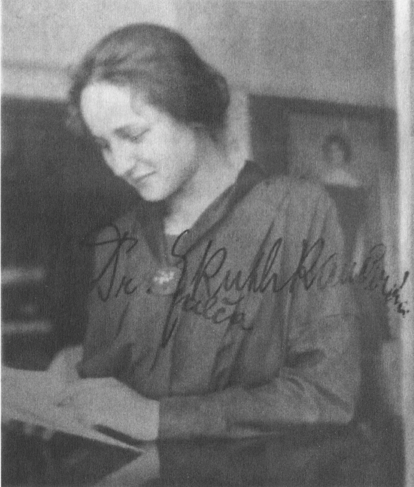 Saly Ruth Ramler (* 1894 – 1993), also known as Saly Ruth Struik, was the first woman to receive a mathematics PhD from the German University in Prague, now known as Charles University. Her 1919 dissertation, on the axioms of affine geometry, was supervised by Gerhard Kowalewski and Georg Alexander Pick. She married the Dutch mathematician and historian of mathematics Dirk Jan Struik in 1923. Between 1924 and 1926, the pair traveled Europe and met many prominent mathematicians, using Dirk Struik's Rockefeller fellowship. In 1926, they emigrated to the United States, and Dirk Struik accepted a position at Massachusetts Institute of Technology (MIT).